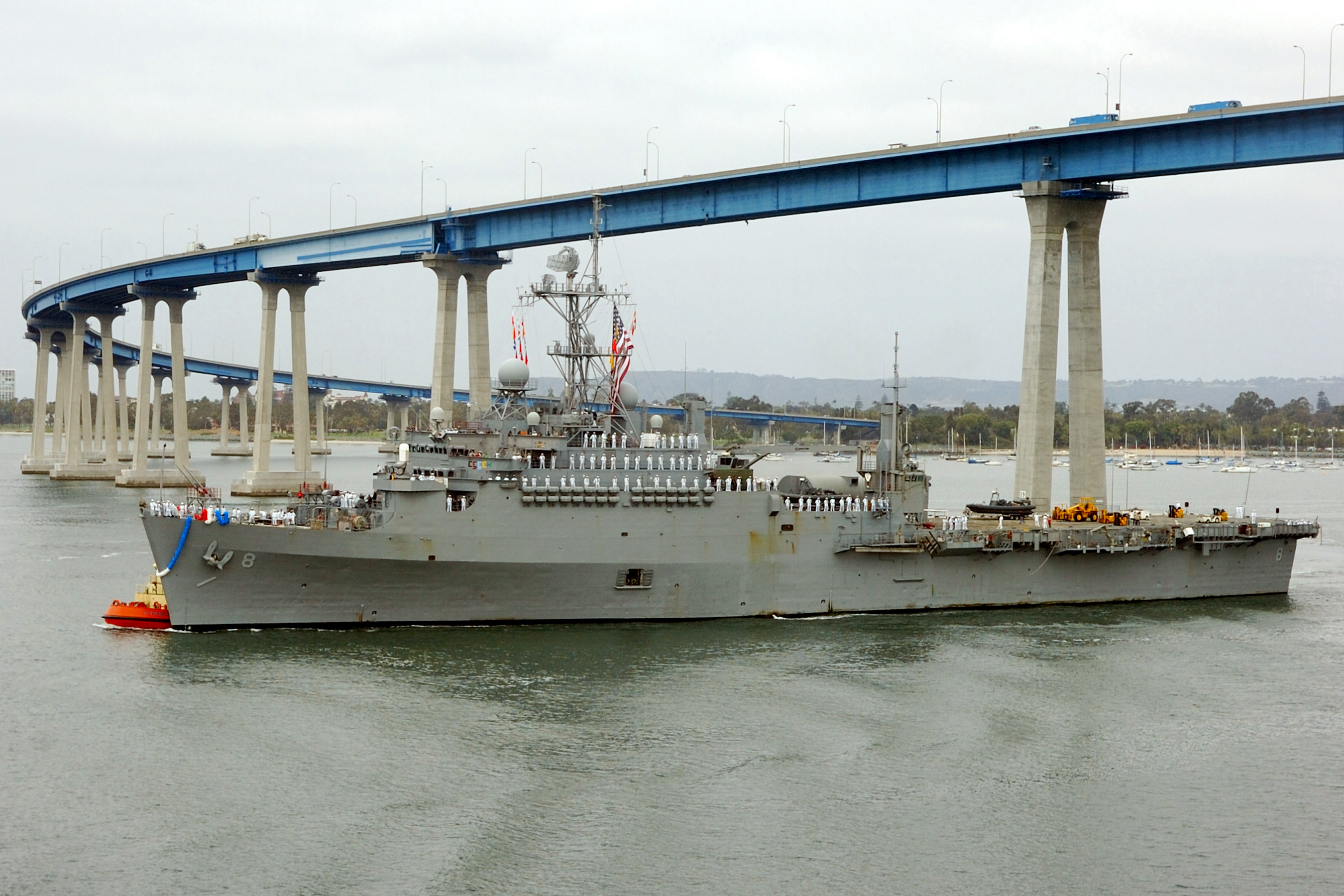 The u.S. Navy amphibious transport dock USS Dubuque (LPD-8) passes under the San Diego-Coronado Bridge as she returns home from a twice-extended deployment to the Western Pacific. The homecoming marked the end of a nearly nine-month deployment to conduct maritime operations in the Persian Gulf and transport the 15th Marine Expeditionary Unit.